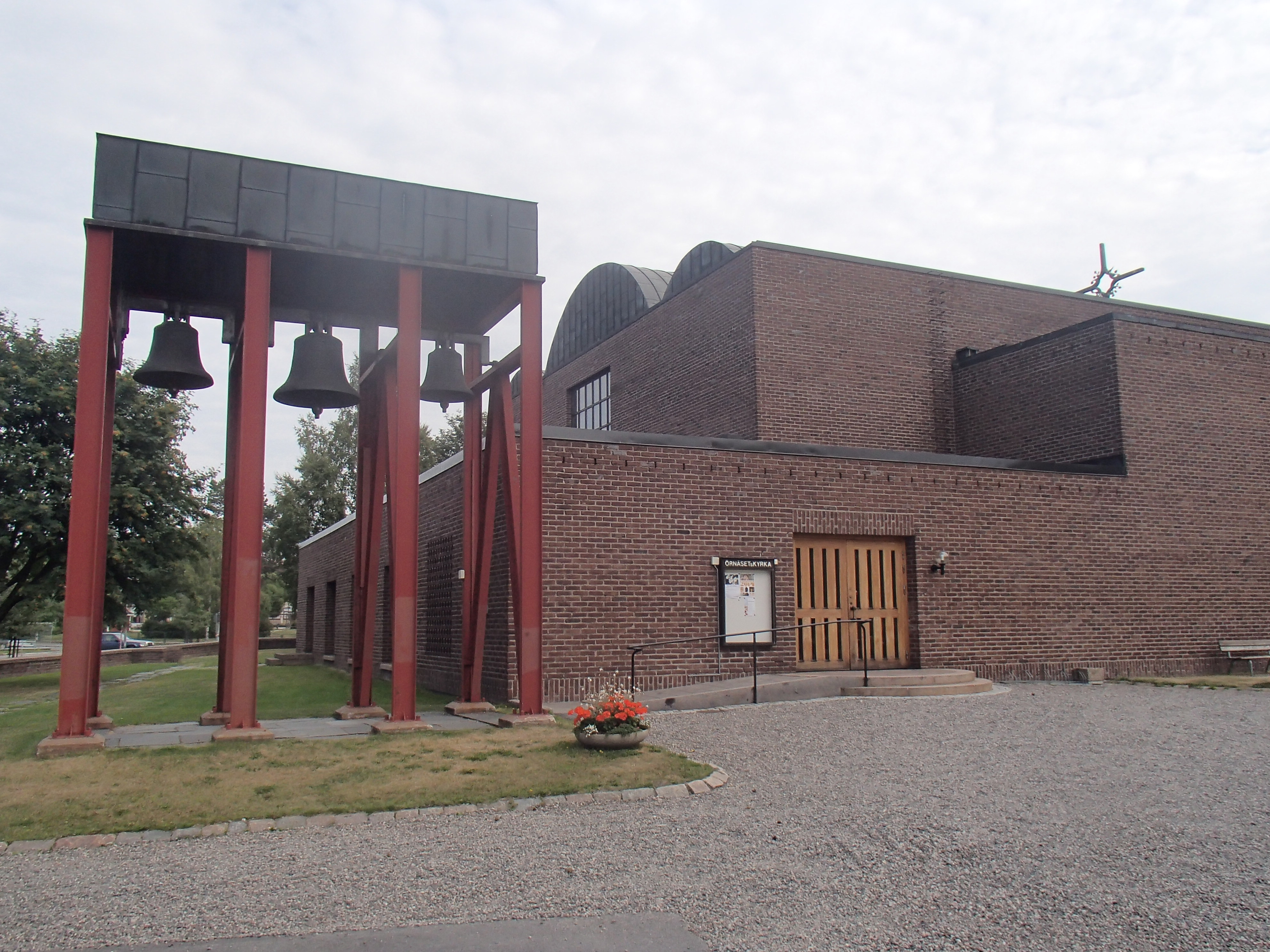 Örnäsets kyrka